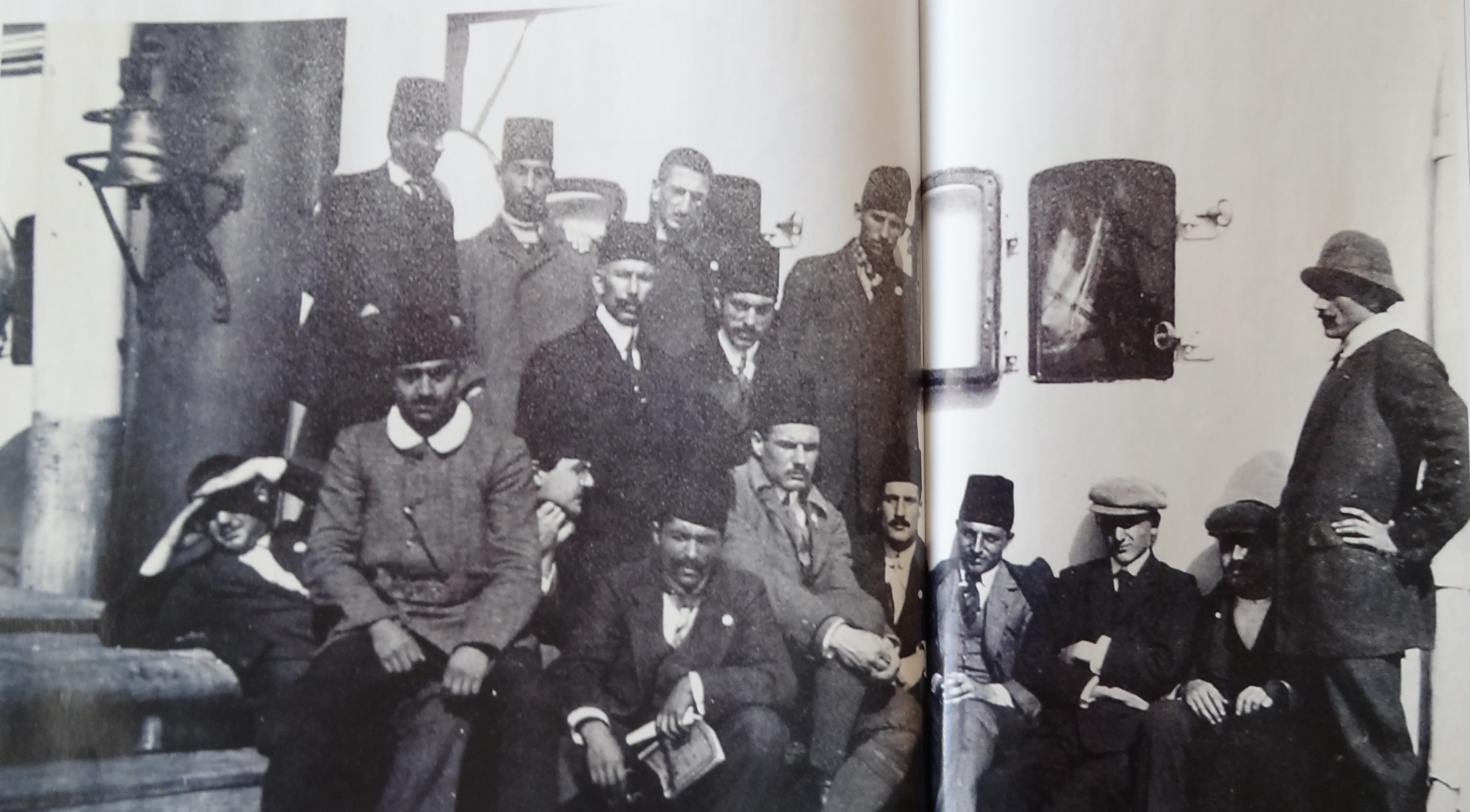 Galatasaray SK' s first trip in Europe. Dacia Ferry, September 21, 1911.